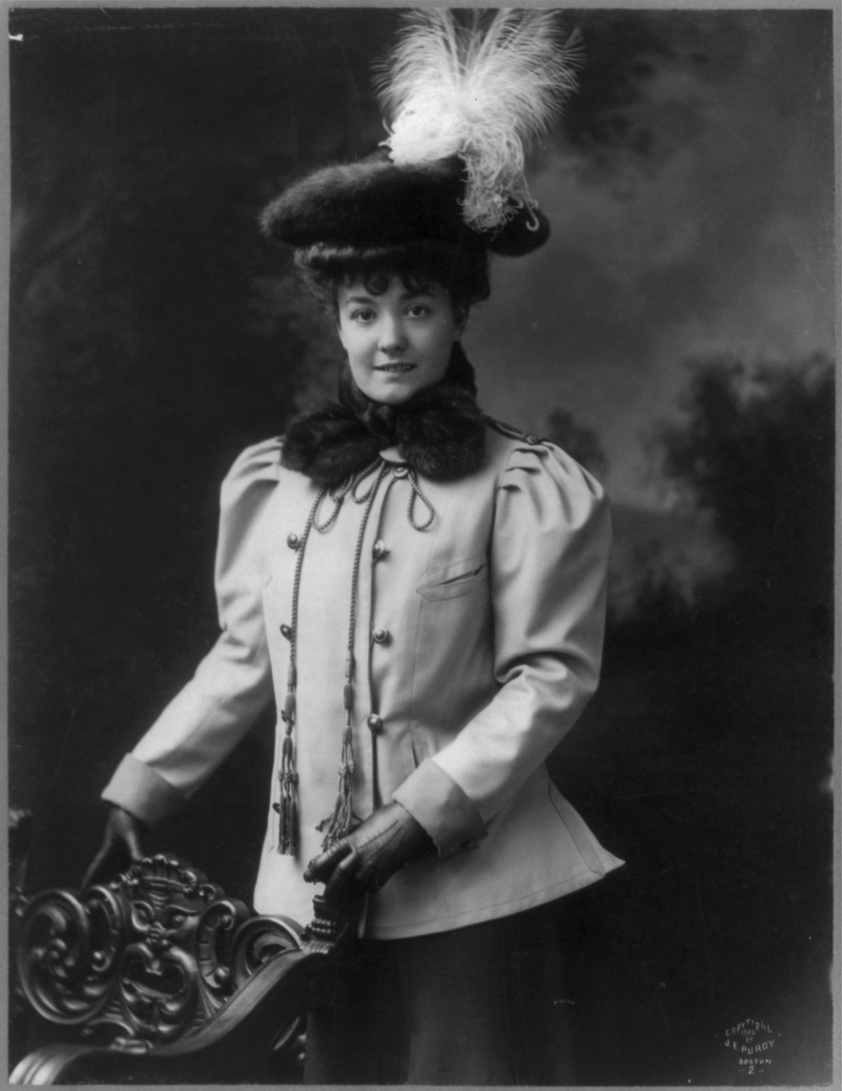 Millicent Hearst, wife of William Randolph Hearst, American newspaper mogul